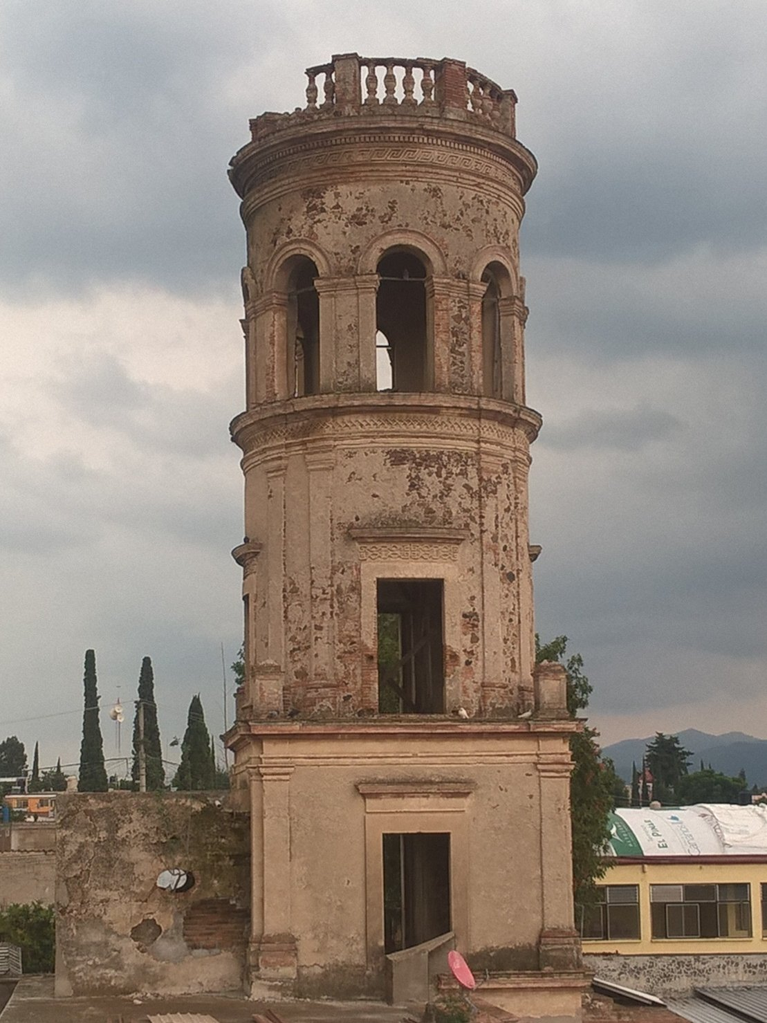 The colonial mirador in Maravatio, Michoacan